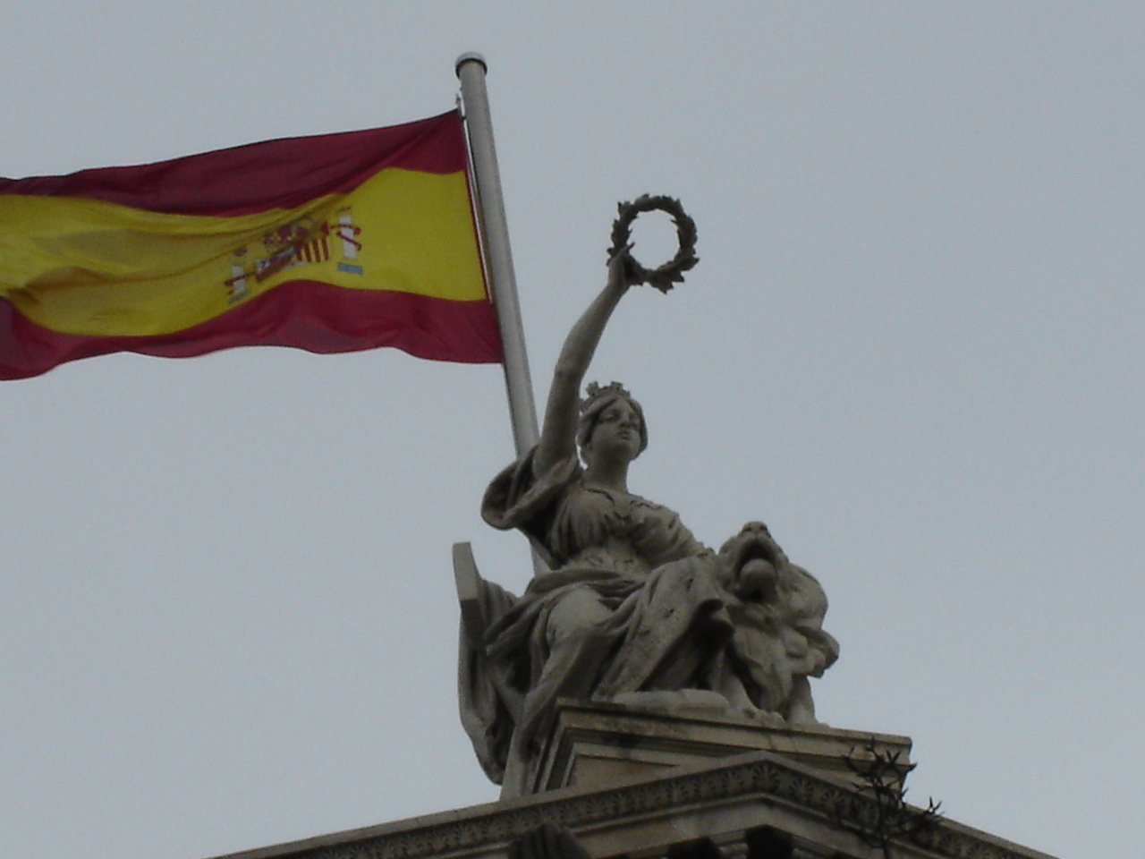 Top of the façade of the National Library of Spain, in Madrid. The female figure beside the lion, sculpted in Italian white marble by Agustí Querol, is a personification of Spain, who, with a laurel wreath, symbolically awards the works of ingenuity of her sons.